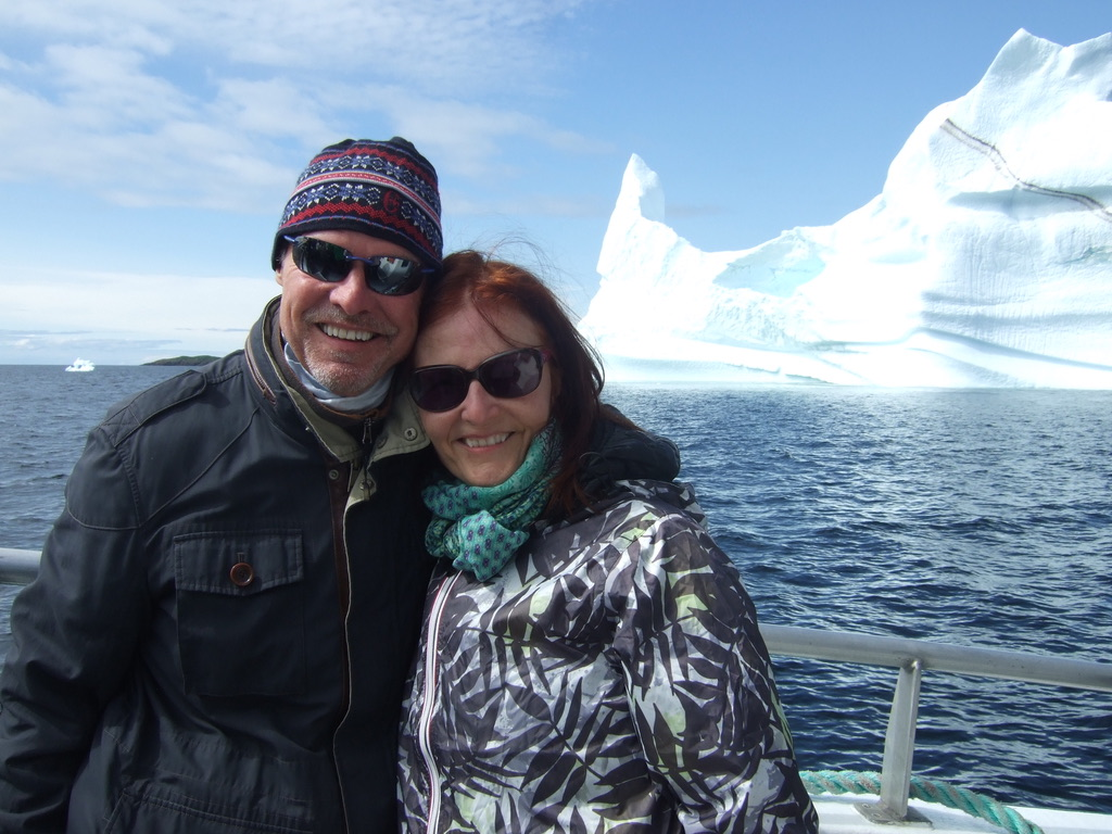 Peter Cavelti and his wife Caroline, exploring the icebergs of Newfoundland, 2019